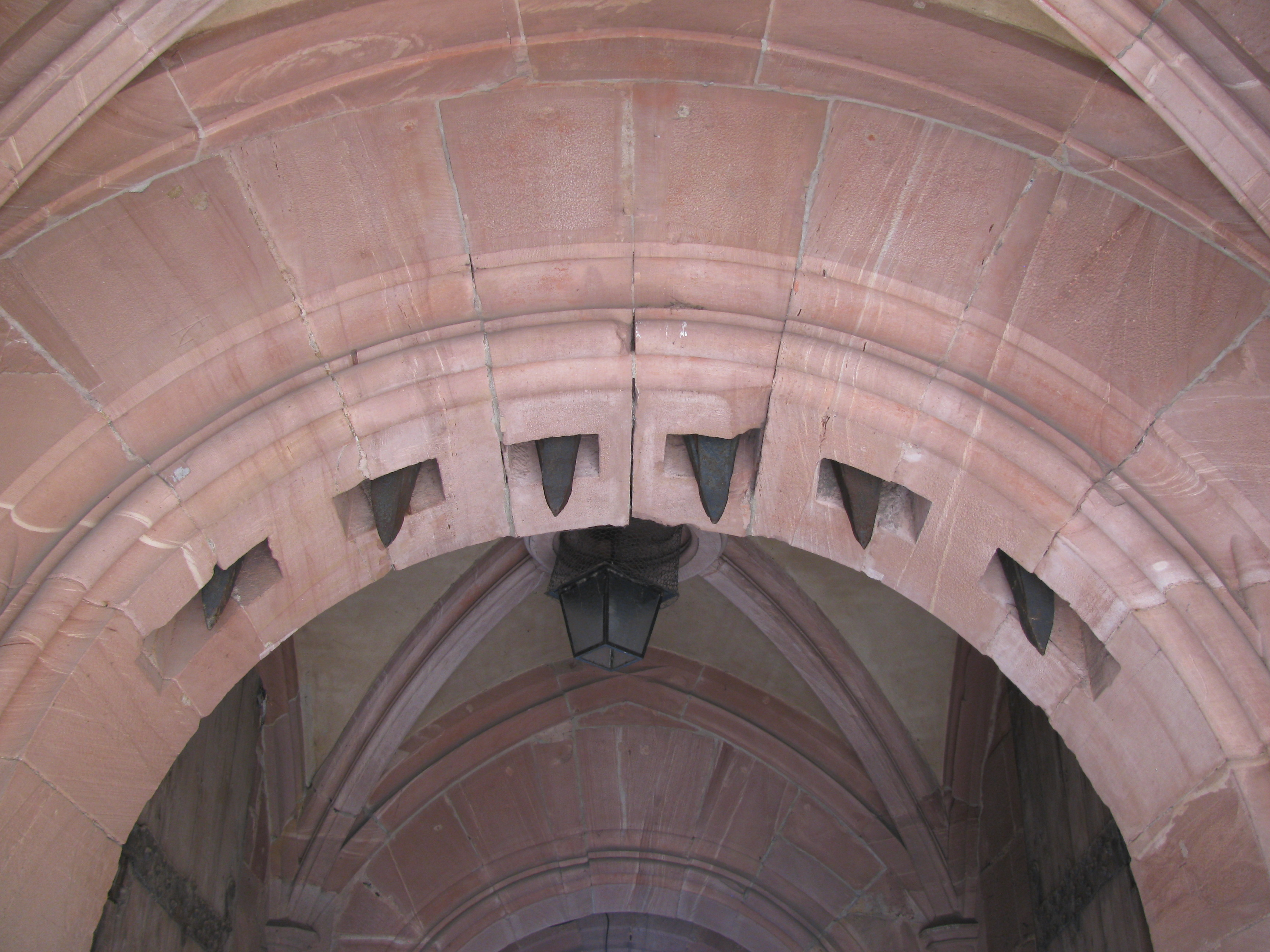 Heidelberg Castle, gate tower (16th century): portcullis.